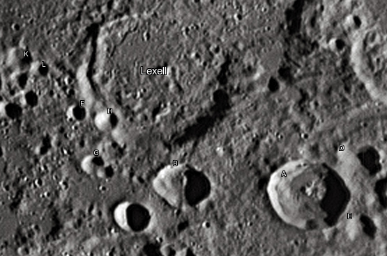 Lexell lunar crater as seen from Earth with satellite craters labeled